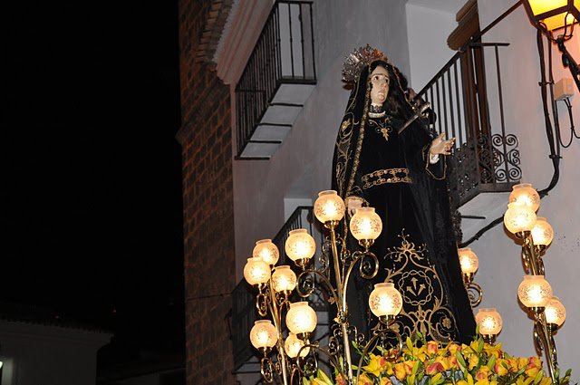 Mª Stmª de los Dolores Letur